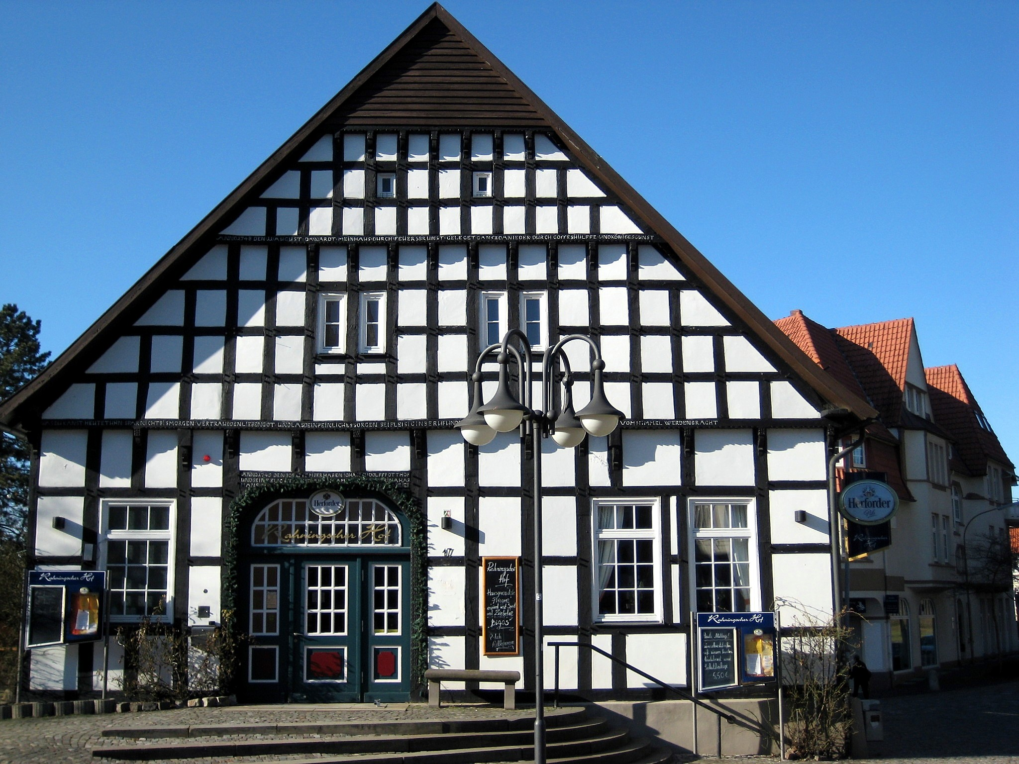 This is a photograph of an architectural monument.It is on the list of cultural monuments of Bünde